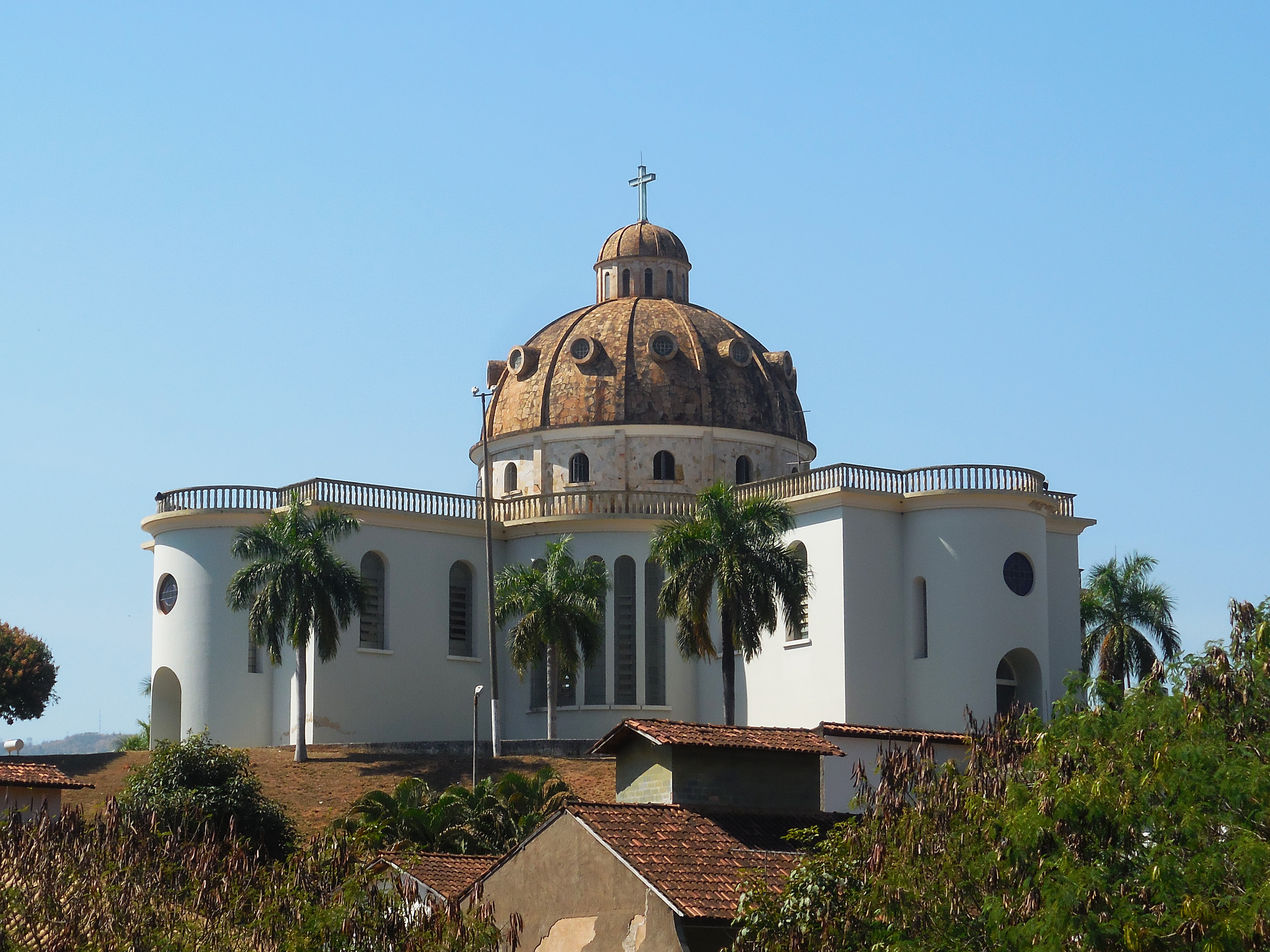 View of the Saint Joseph Matriz Church, in Timóteo, Minas Gerais, Brazil.